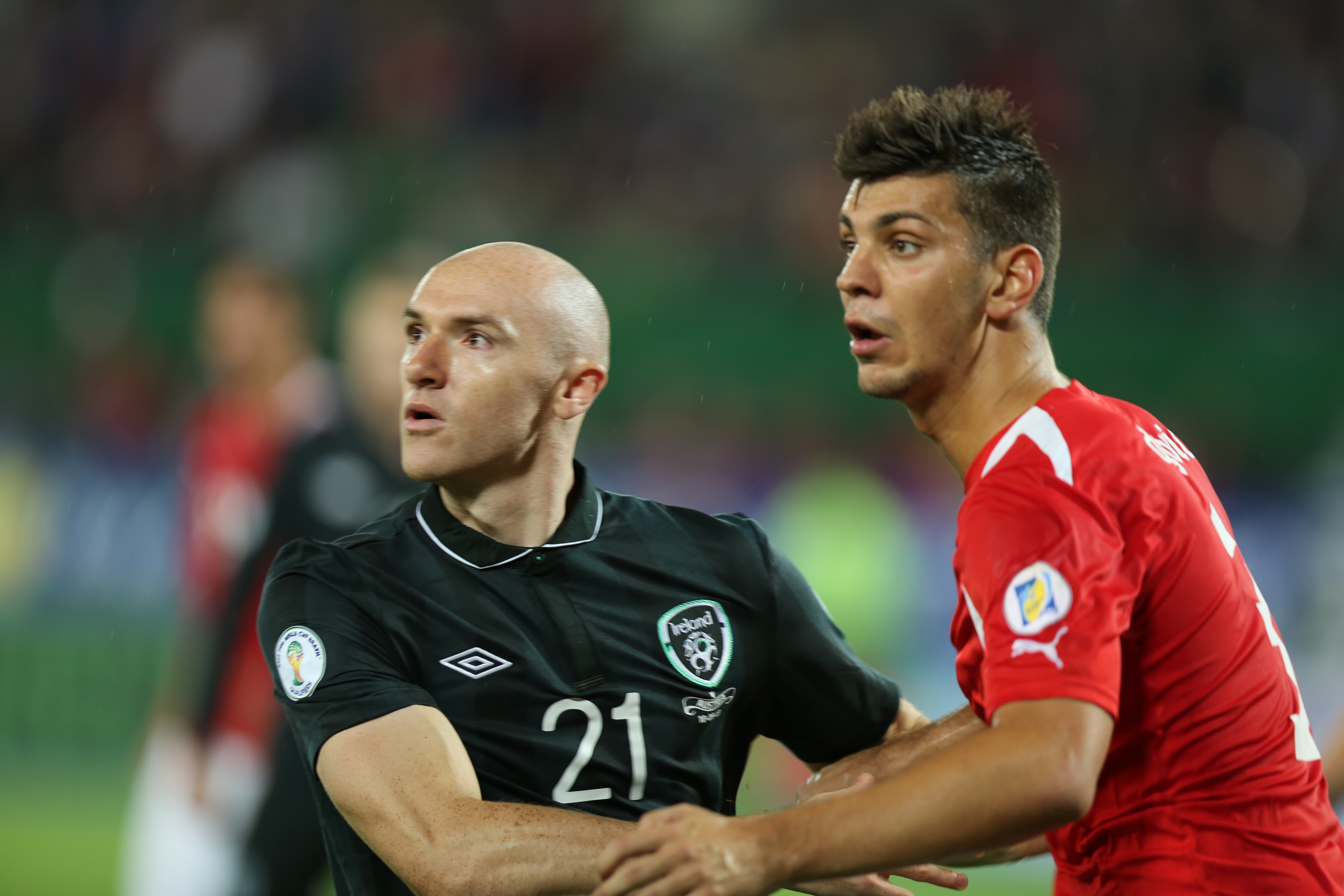 2014 FIFA World Cup qualification (UEFA), Group C: Republic of Ireland national football team at 10. September 2013 before the match against the Austria national football team (0:1) in the Ernst-Happel-Stadion in Vienna. Here:Conor Sammon, Irish striker. The making of this work was supported by Wikimedia Austria. For other files made with the support of Wikimedia Austria, please see the category Supported by Wikimedia Österreich.